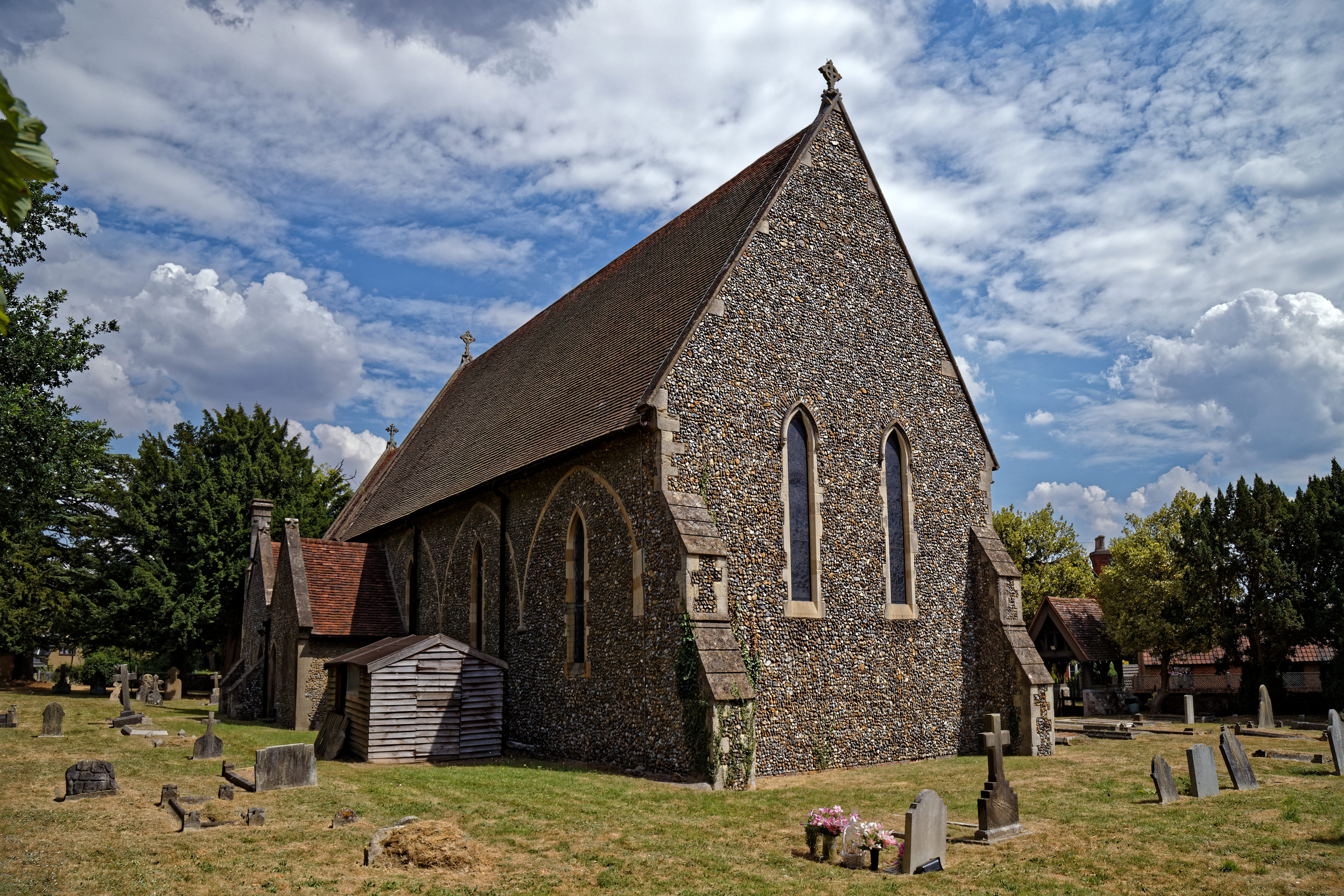 St Alban the Martyr's Church in the village of Coopersale and the civil parish of Epping, Essex, England.Camera: Canon EOS 6D Mark II with Canon EF 24-105mm F4L IS USM lens.Software: File lens-corrected, optimized, perhaps cropped, with DxO PhotoLab, and likely further optimized with Adobe Photoshop CS2.